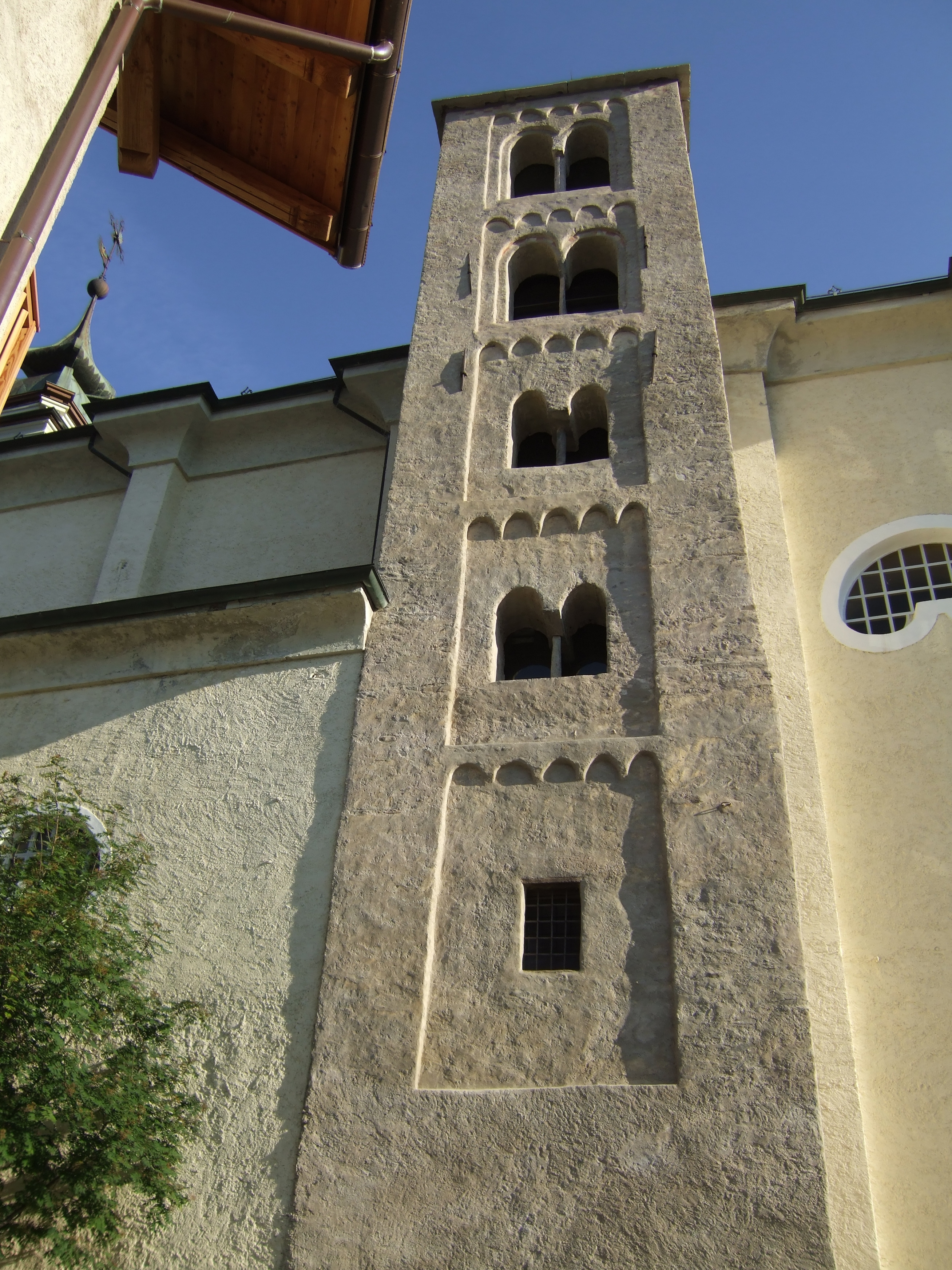 13th century bell tower in Bardonecchia